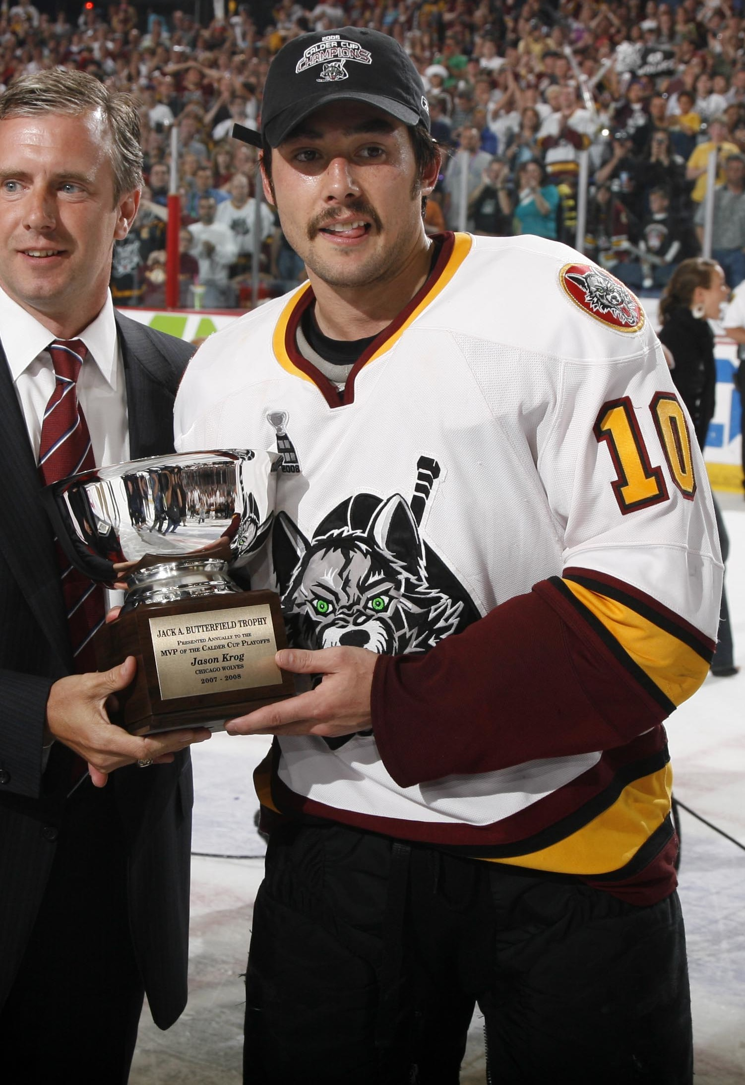 Photo: Ross Dettman